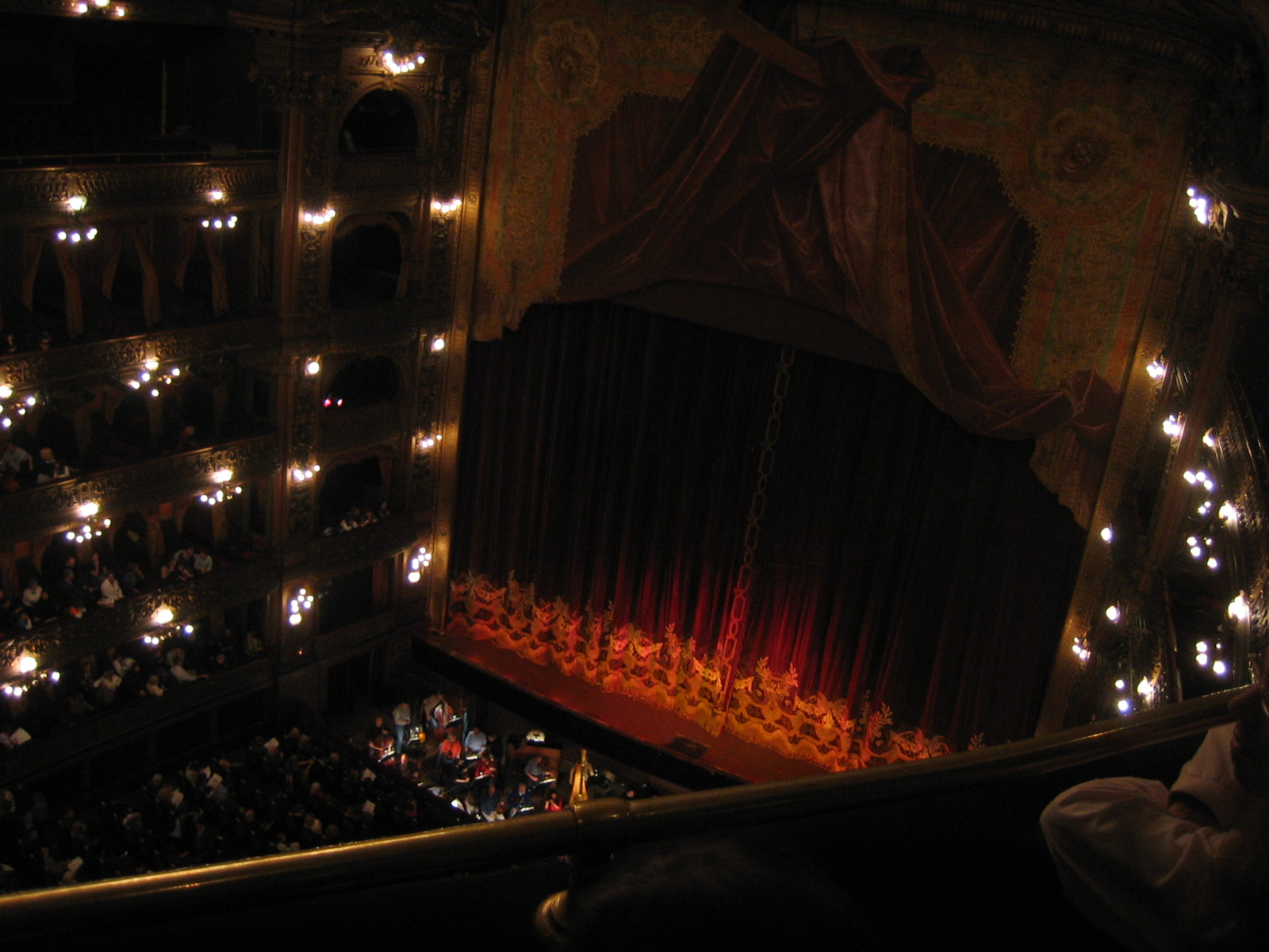 Concert hall and stage in the Colón Theatre, Buenos Aires.